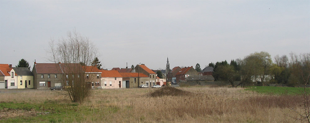 Blaton (Belgium), the village in the winter.